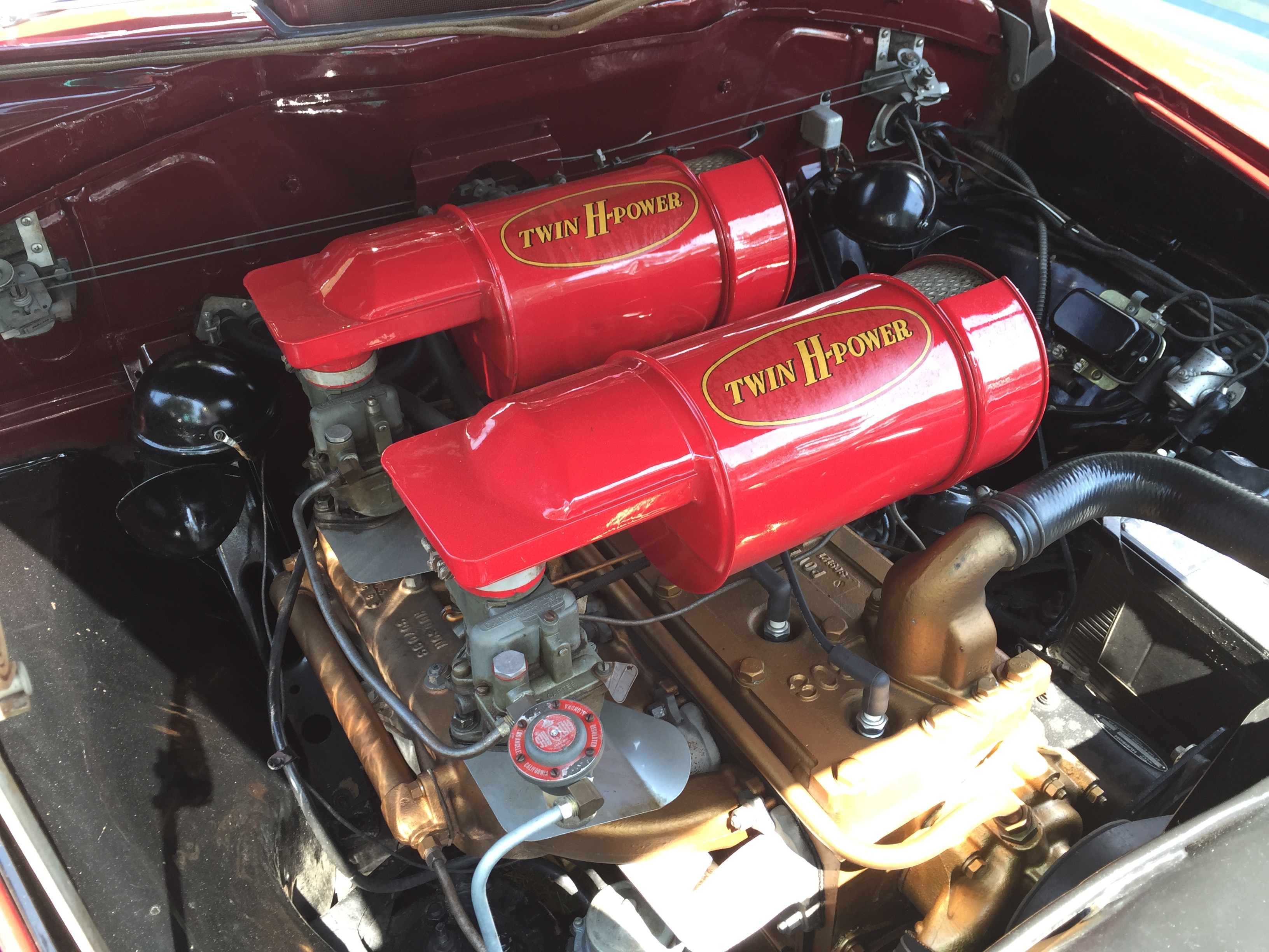 1952 Hudson Hornet, a full-sized four-door sedan riding on a 124 in (3,150 mm) wheelbase with an overall 208 in (5,283 mm) length. This car is finished in maroon paint and has the standard for 1952 Twin H-Power (dual single-barrel carburetors atop a dual-intake manifold) 170 hp I6 engine and an automatic transmission. Picture taken at the 52nd Annual "Das Awkscht Fescht" antique car show in Macungie, Pennsylvania.